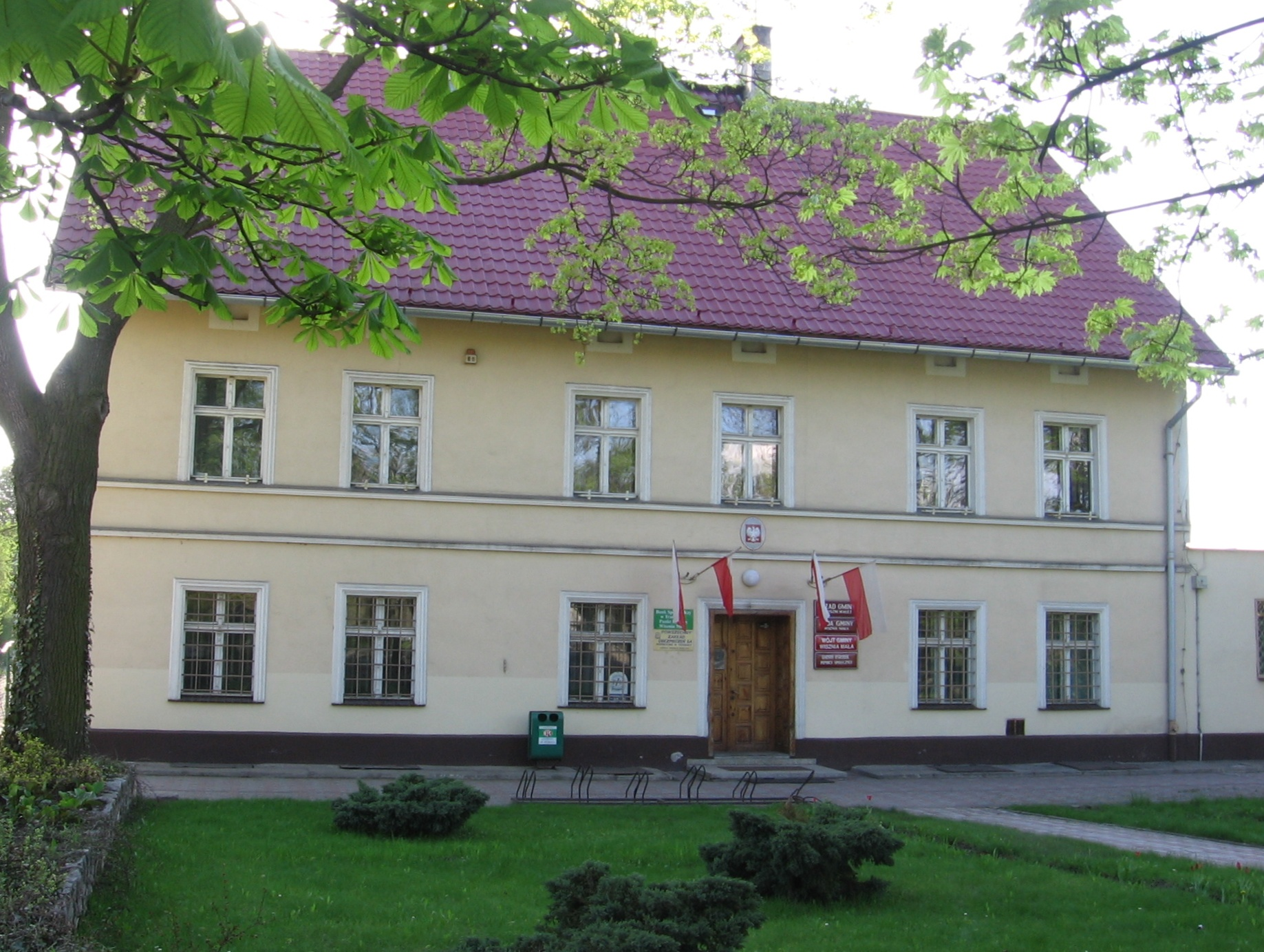 the building of Community House in village Wisznia Mała near Wrocław